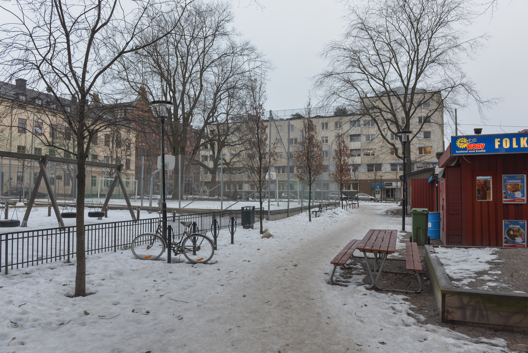 Droskan, a small park in Södermalm, Stockholm.